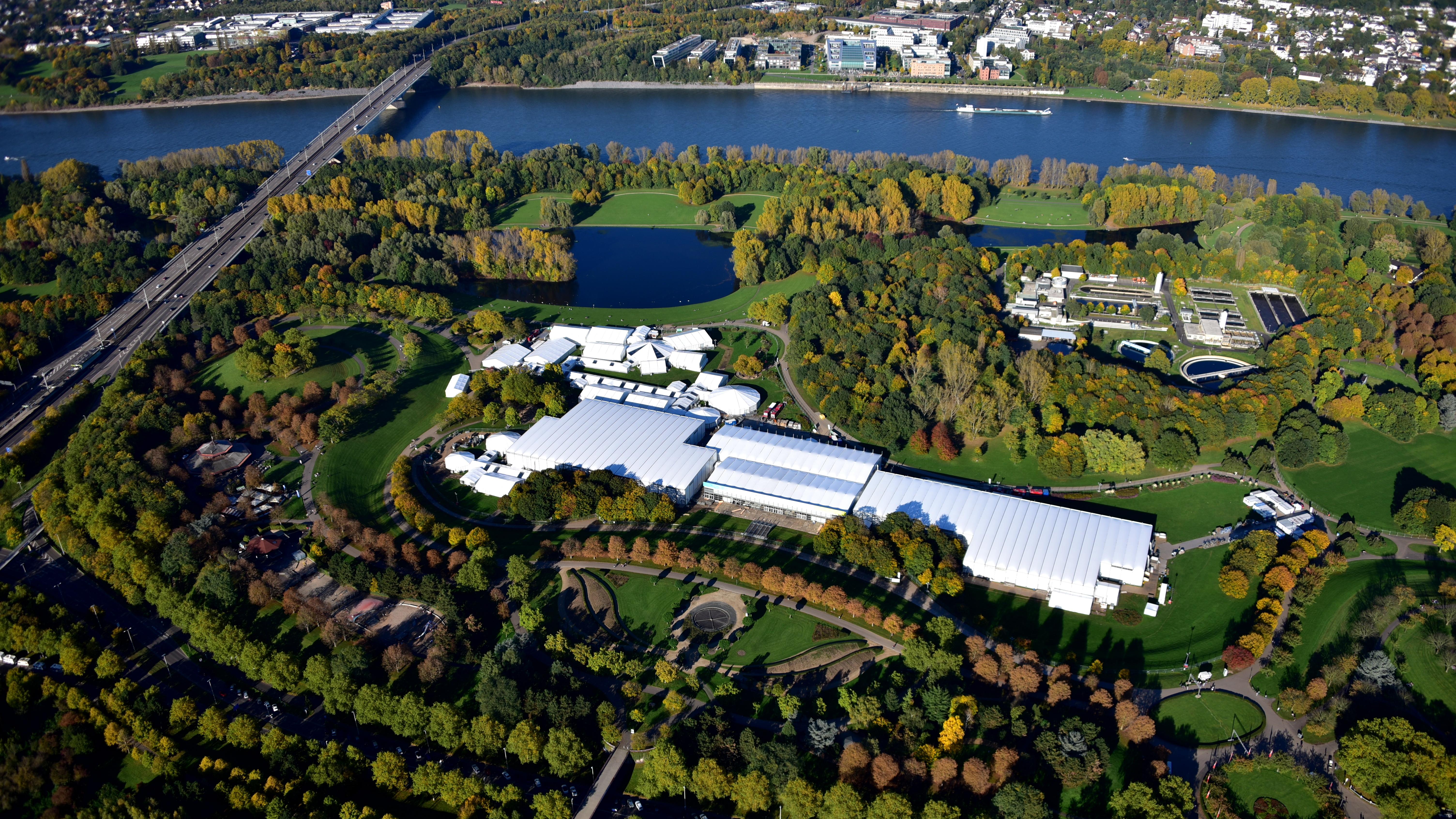 'Bonn-Zone' in landscape park Rheinaue near river Rhine in Bonn, a few days before the begin of United Nations Climate Change Conference, November 2017 in Germany. White tents and temporary structures within green trees at a little lake, near one of water recycling and wastewater treatment plants in Bonn. Bridge Konrad-Adenauer-Brücke you can see in the left of this aerial photo of Bonn (For the second COP23 area: view ↓a second photo below↓ for the 'Bula'-zone in the North).